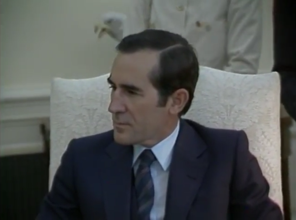 Portuguese President António Ramalho Eanes in the Oval Office, on 15 September 1983.